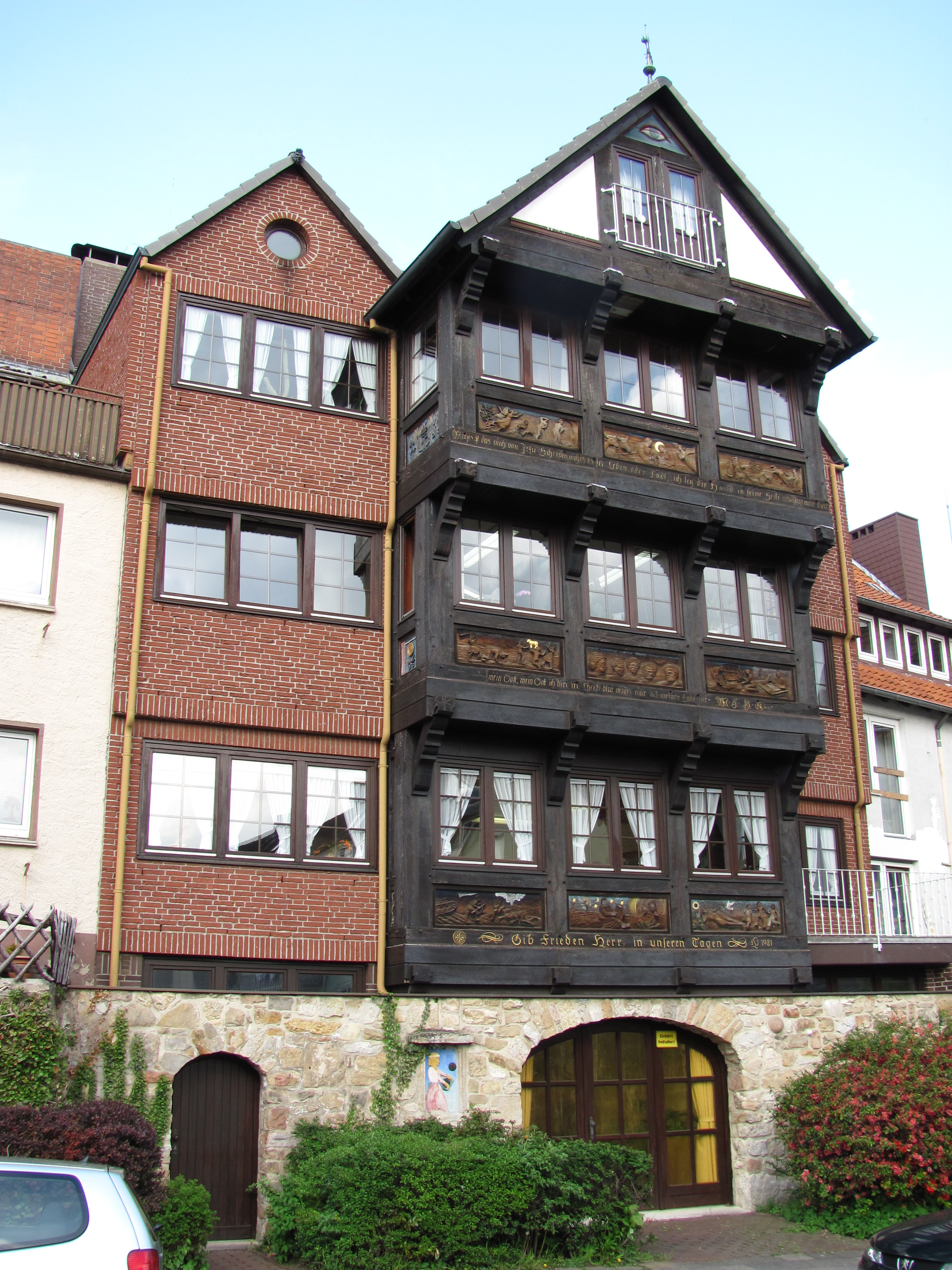 Half-timbered house, rebuilt in 1981, Hildesheim, Germany